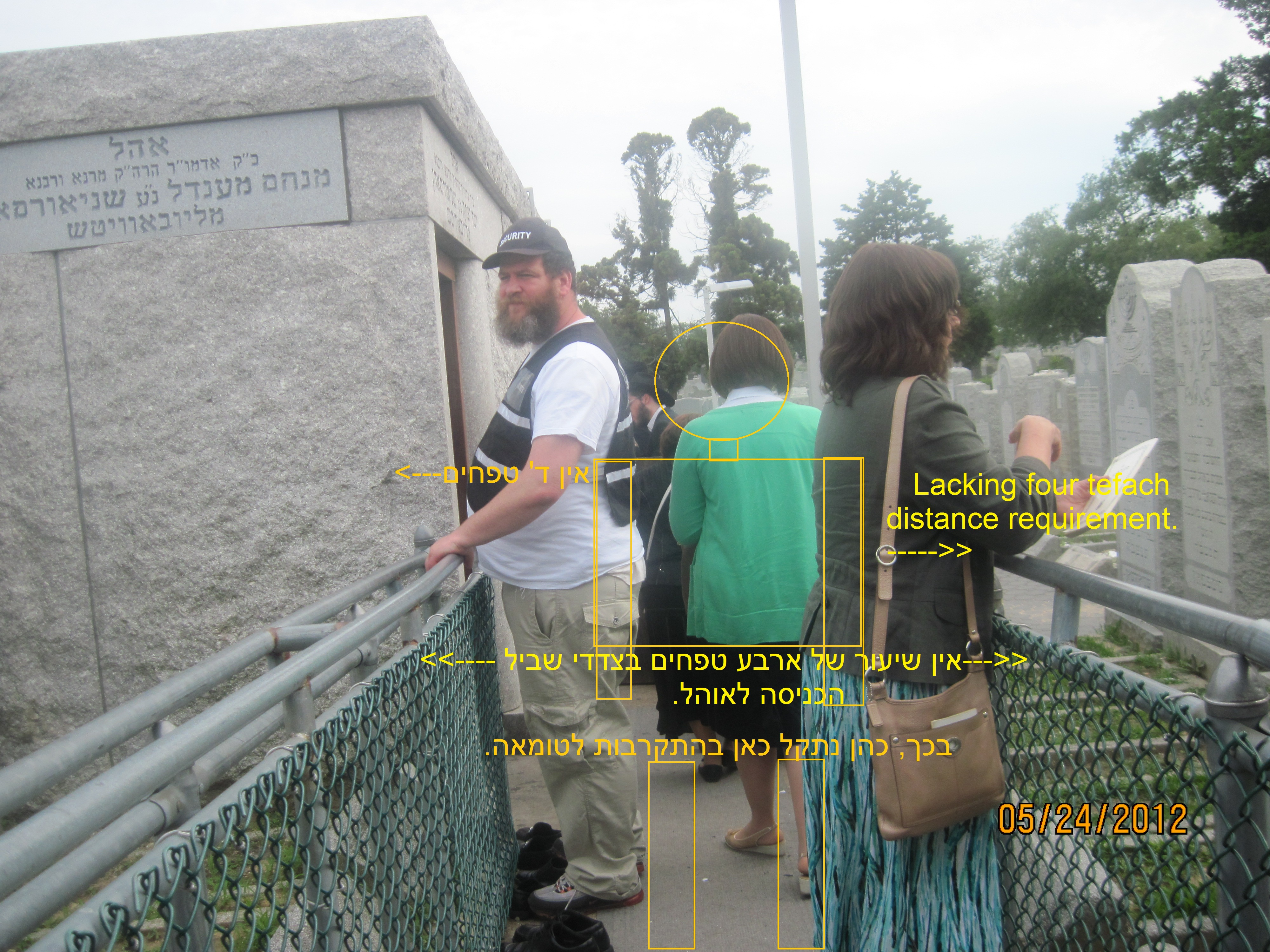 Diagram depicting distance requirement of kohen to tombstone to avoid halachic prohibition